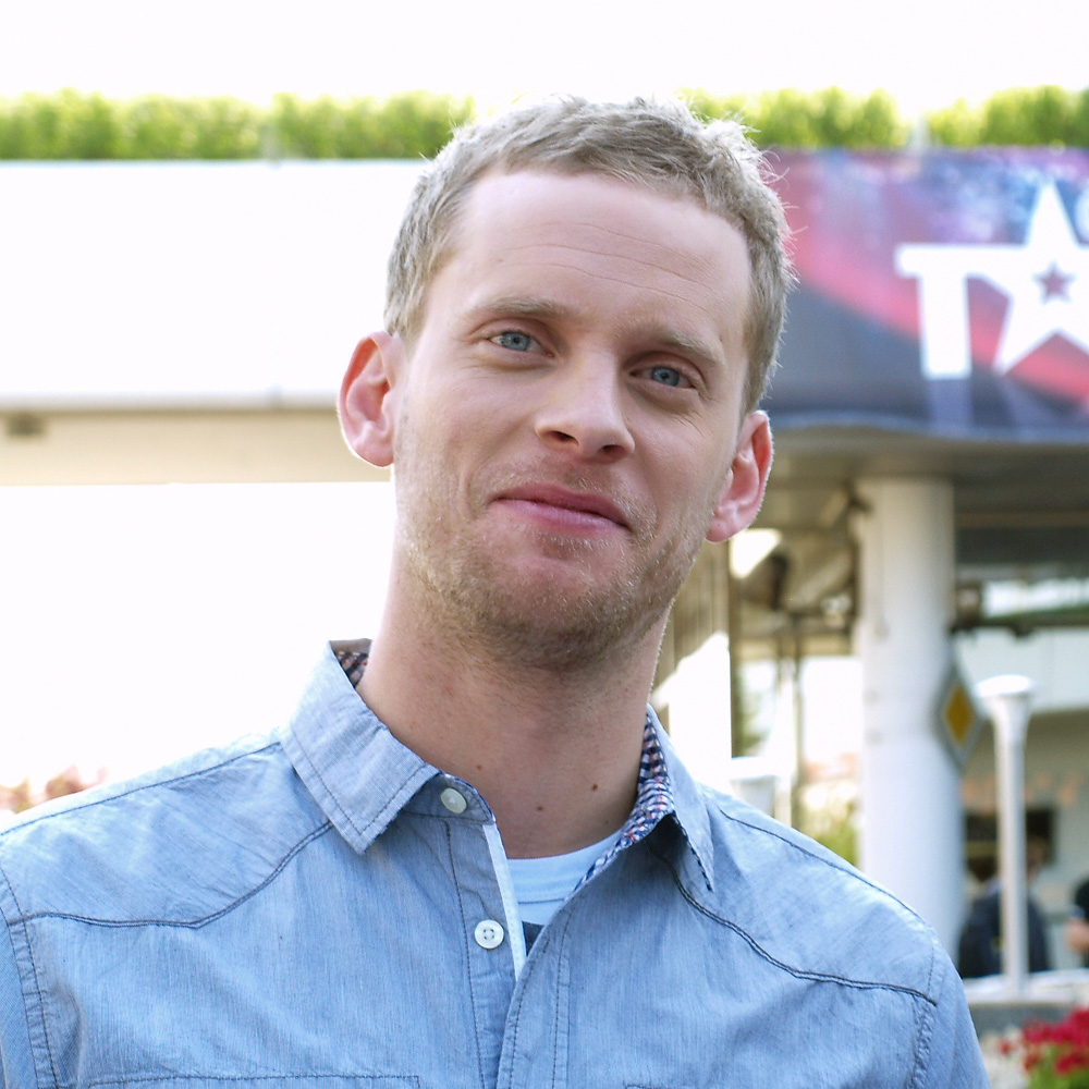 Casting for Czecho-Slovakia's Got Talent in Prague – host for the Czech Republic Jakub Prachař (Czech actor and musician)